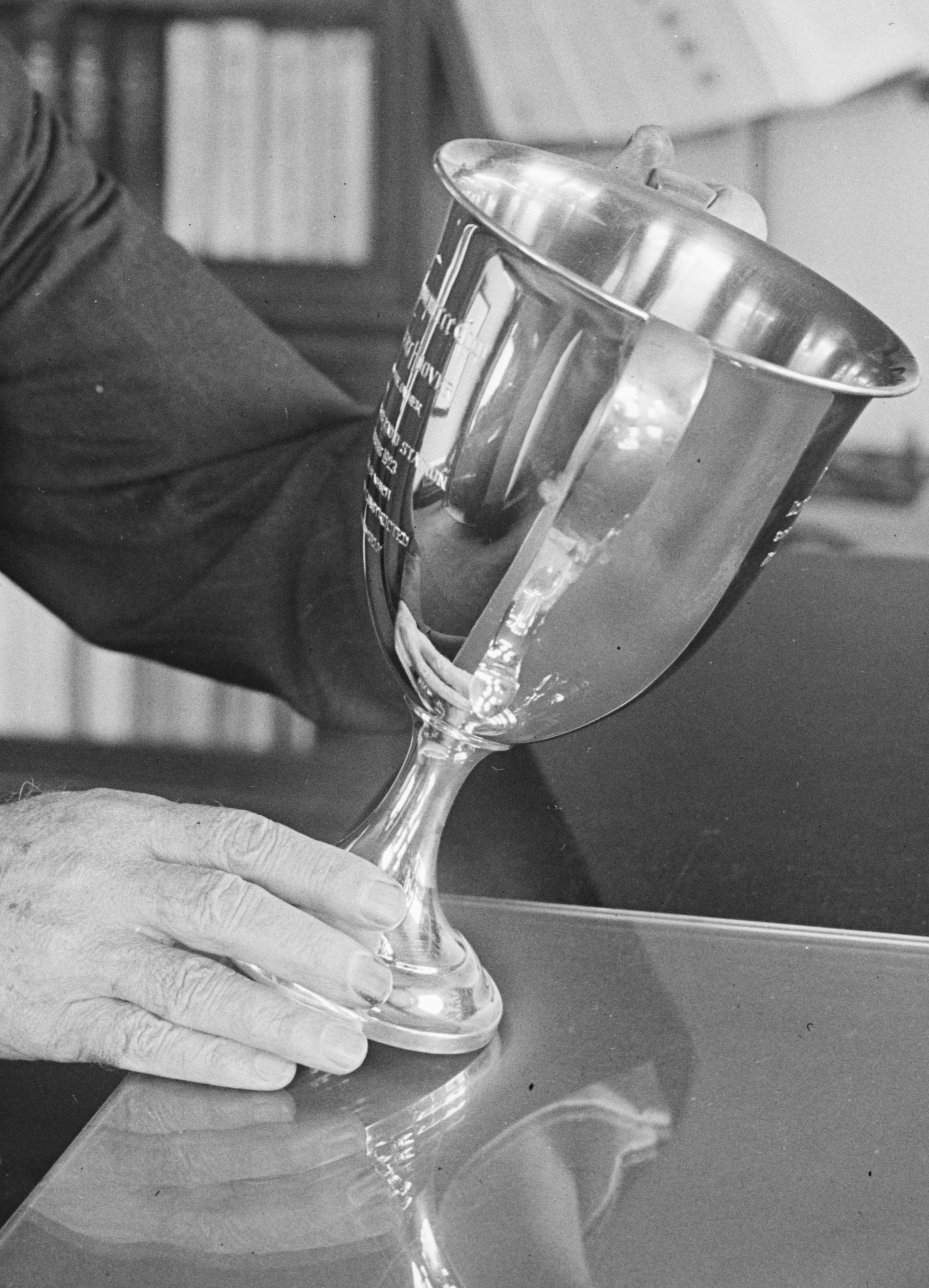 Herbert Hoover Cup of best all-around amateur radio station in U.S. which was awarded to Donald C. Wallace, Minneapolis